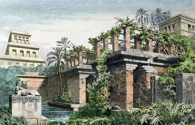 The Hanging Gardens of Babylon, painting by Ferdinand Knab.